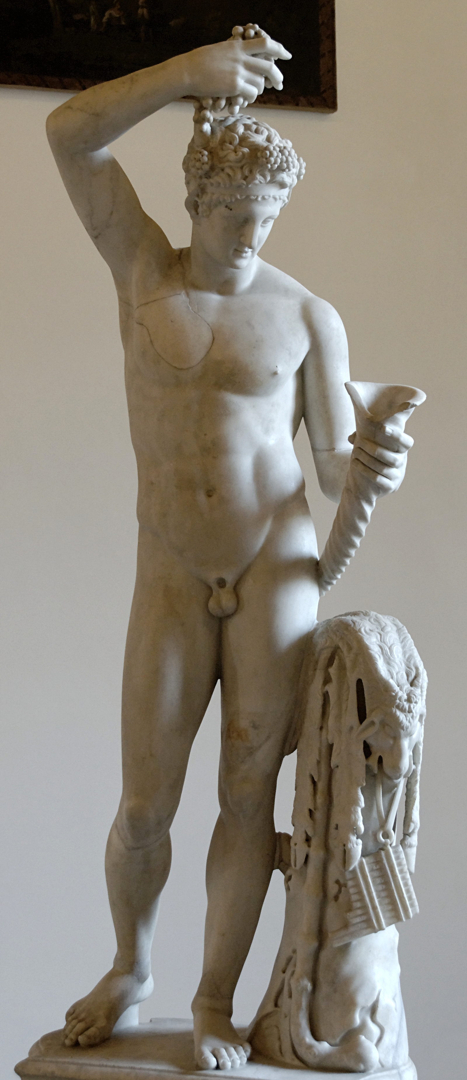 Pouring Satyr. Fine-grained marble, Roman copy of the second half of the 2nd century AD after a Greek original of the 5th century BC; the bunch of grapes is a 16th century restoration.